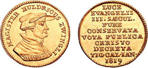 Switzerland, Zürich. (Coins of Switzerland). AV Medallic Ducat (3.46 g, 12h). Dated 1819. MAGISTER HULDRICUS ZWINGLI, mantled bust of Ulrich Zwingli right, wearing minister's cap LUCE/EVANGELII/III.SÆCUL./PURE/CONSERVATA/VOTA PUBLICA/CHRISTO/DECRETA/TIG•CAL•IAN•/1819 in ten lines across field. Coraggioni Tafel IV, 13 var. (rev. legend); Friedberg 490; KM M2.